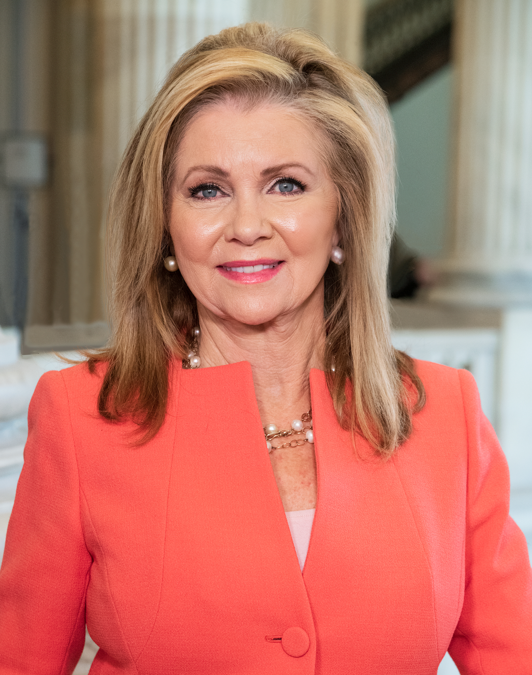 Marsha Blackburn, official photo, 116th Congress